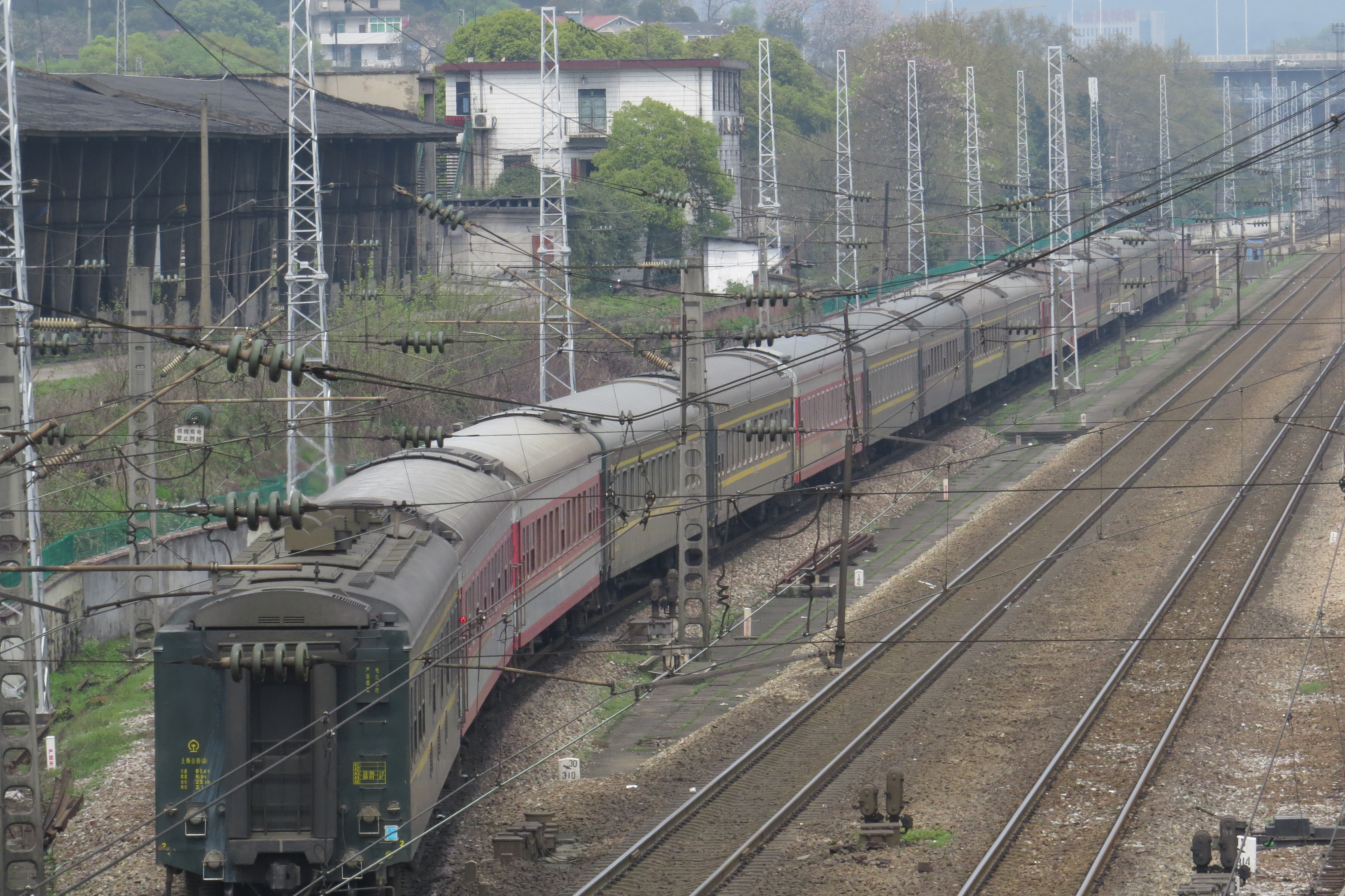 K723 from Nantong to Kunming.